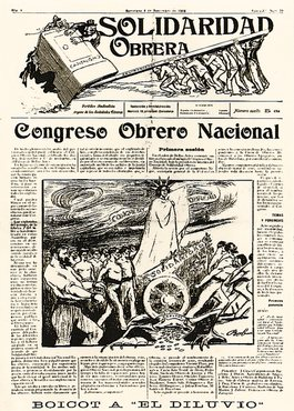 The cover of the 39th issues of Solidaridad Obrera.